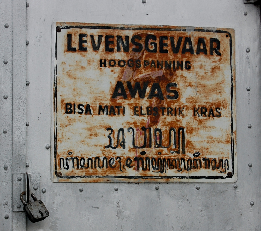 PLN (Indonesian state-owned electric company) sign board. Bogor, West Java.